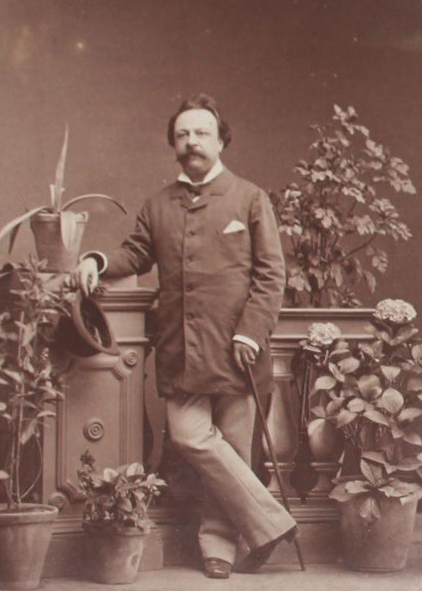 Portrait photograph, dated 1885, of Júlio César Machado (1835-1890), Portuguese writer.